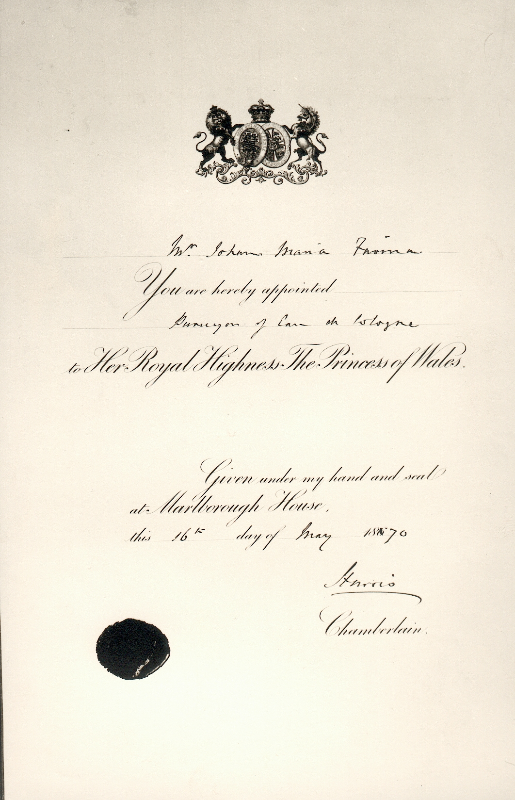 royal warrant of Princess of Wales 1870 for J.M.Farina